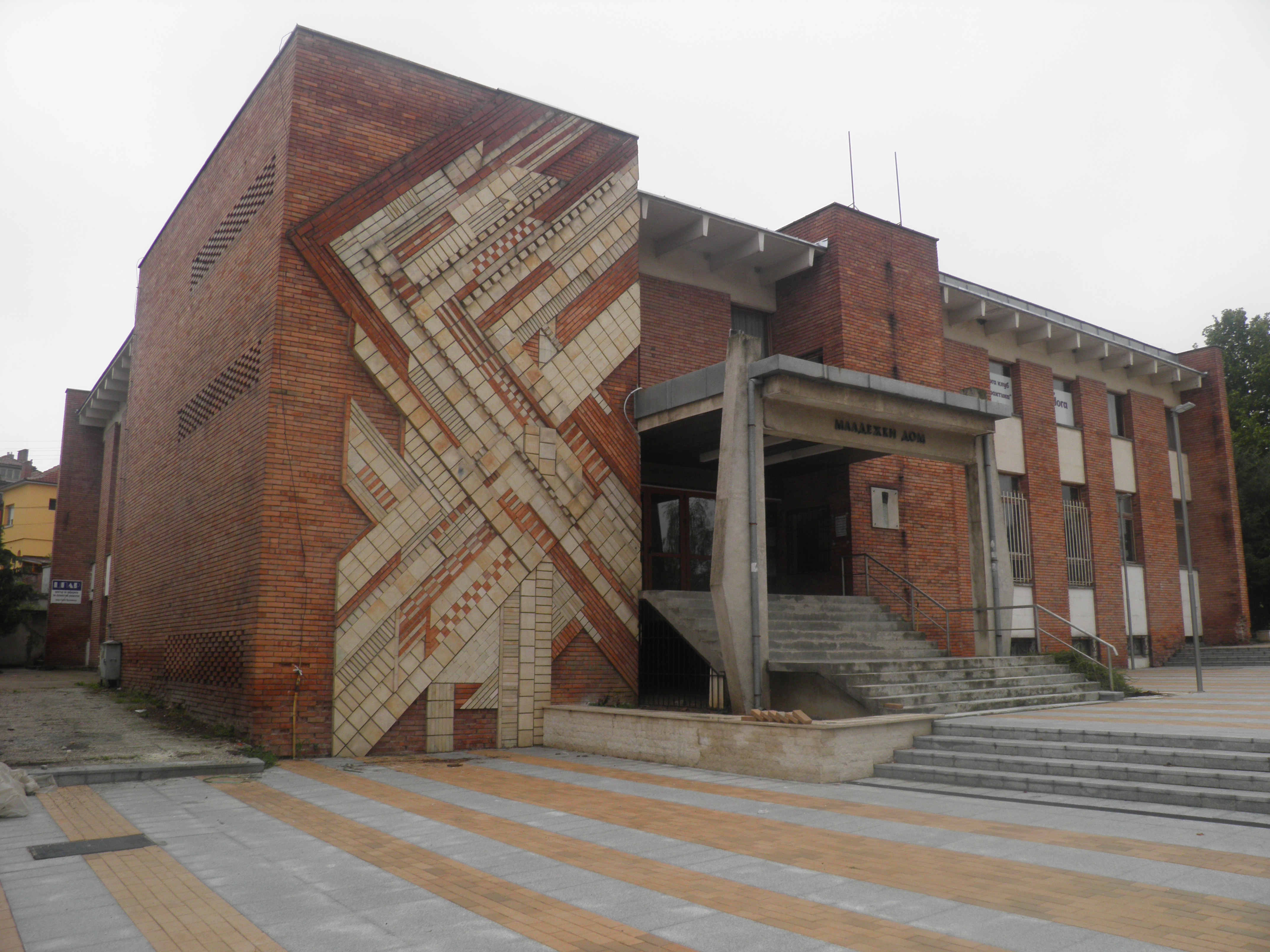 Culture centrer Gorna Oryahovitsa